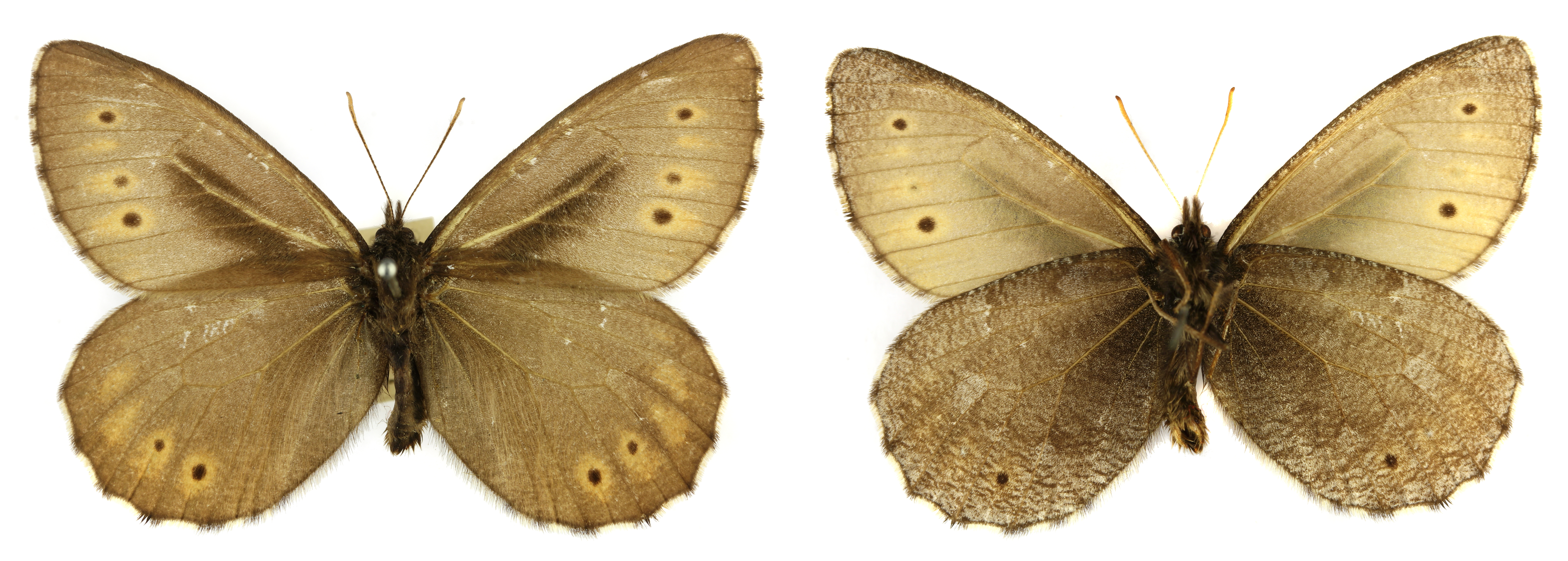 Oeneis jutta insect collections SLU, Uppsala